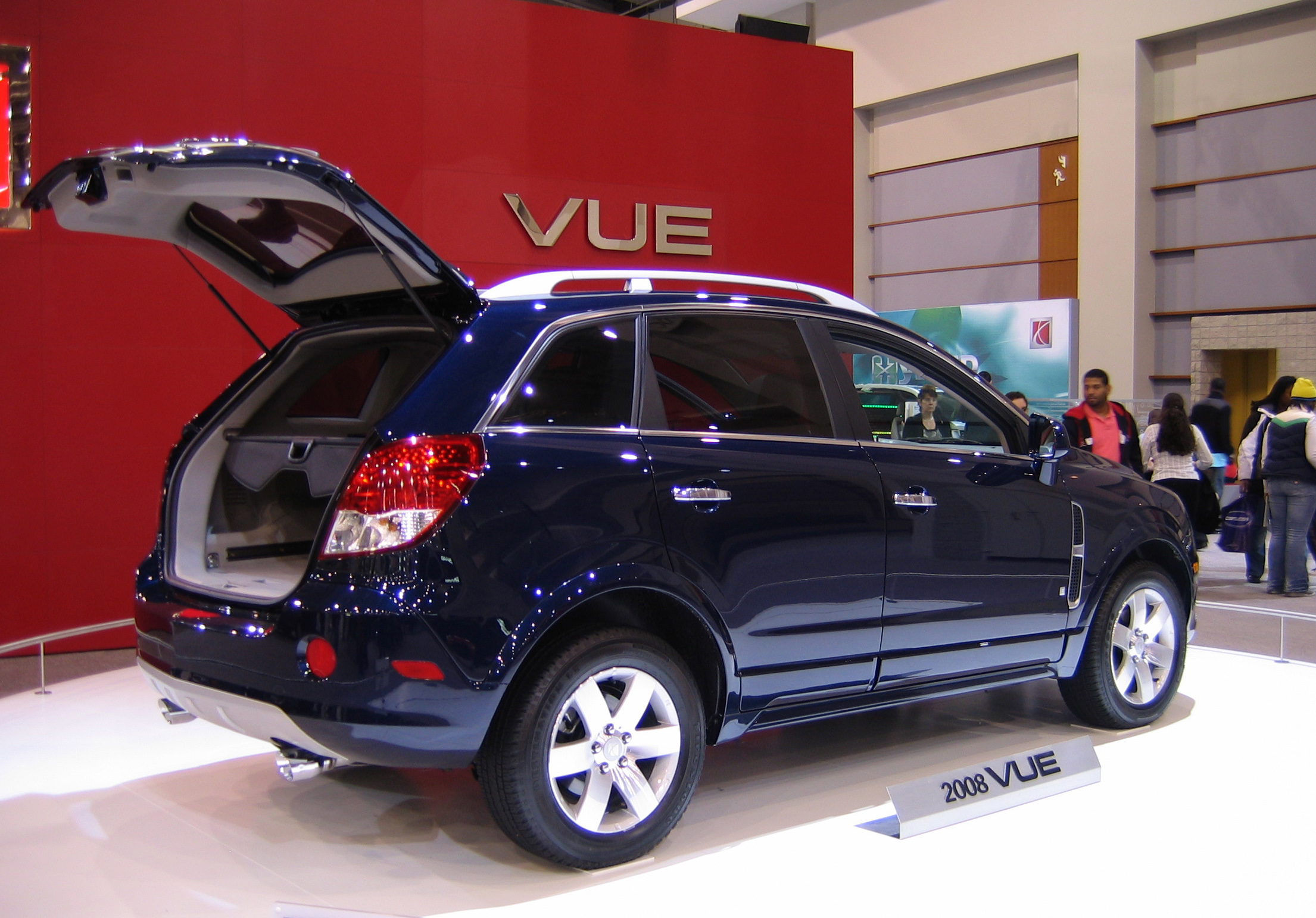 Saturn Vue at the 2007 Washington Auto Show.